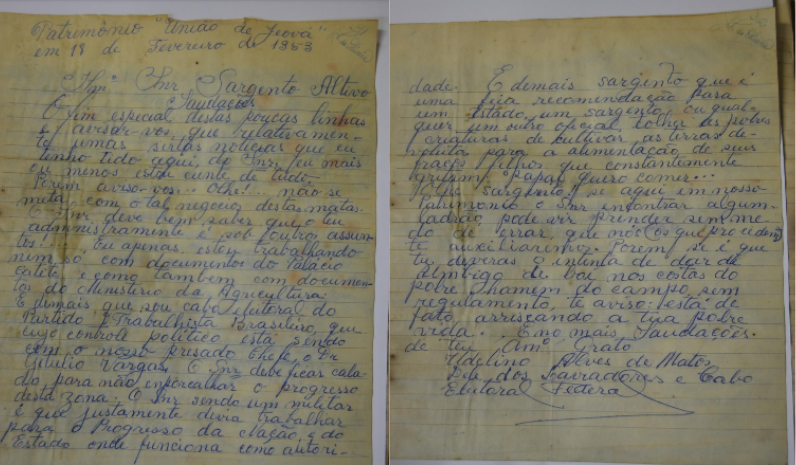 Carta de Udelino ao Soldado Altino